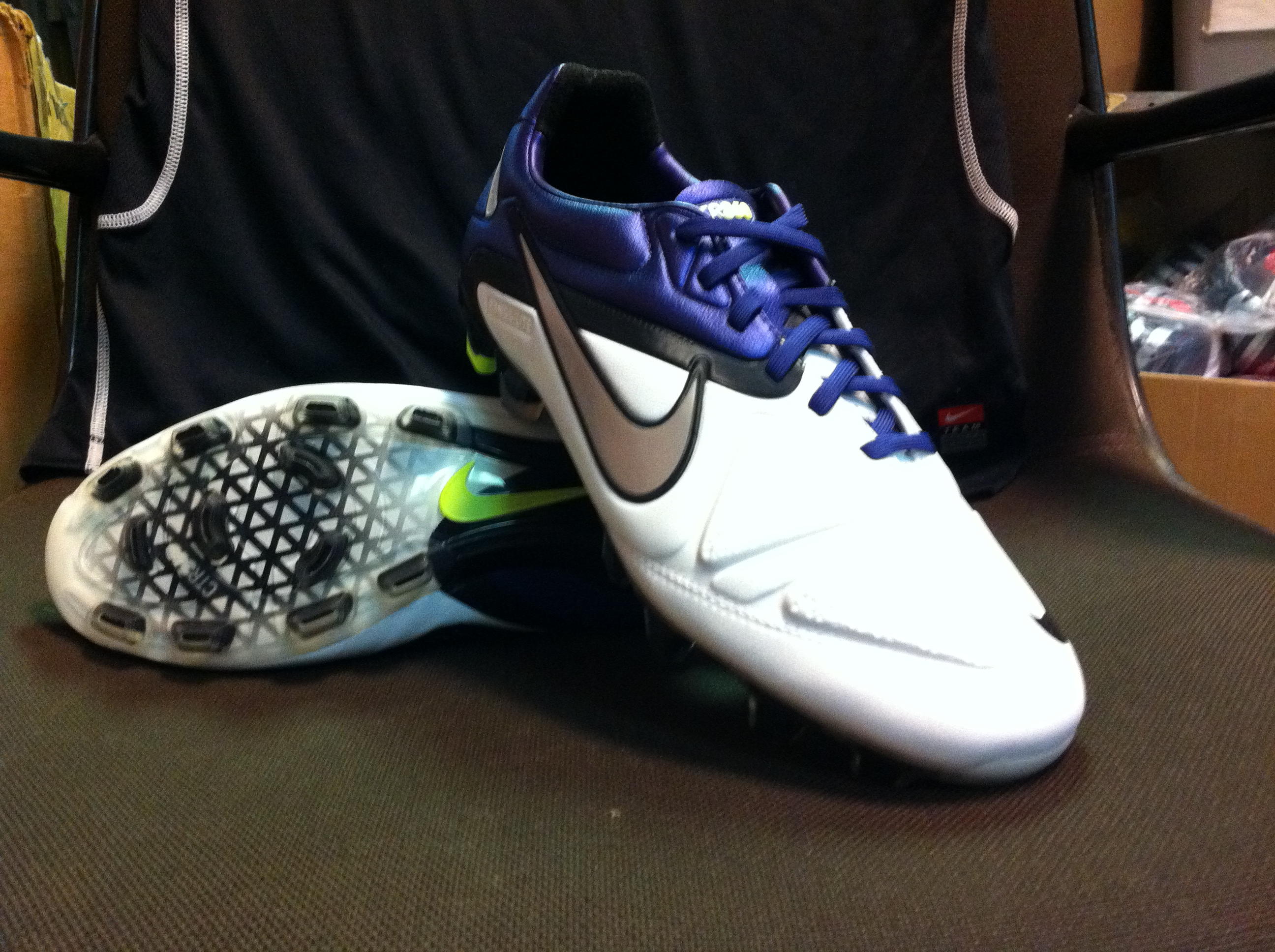 Nike CTR360 Maestri II White/Silver/Purple